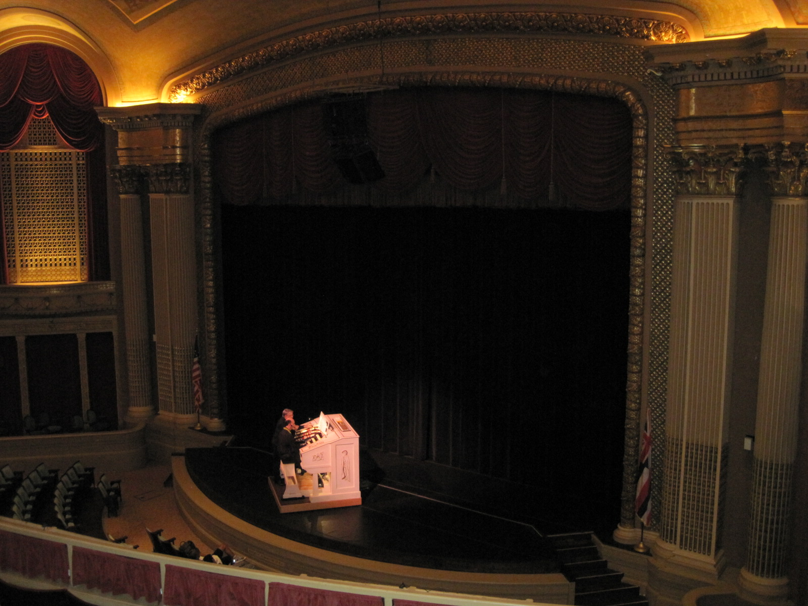 Proscenium stage, Hawaii Theatre, Honolulu, Hawaii, on National Register of Historic Places